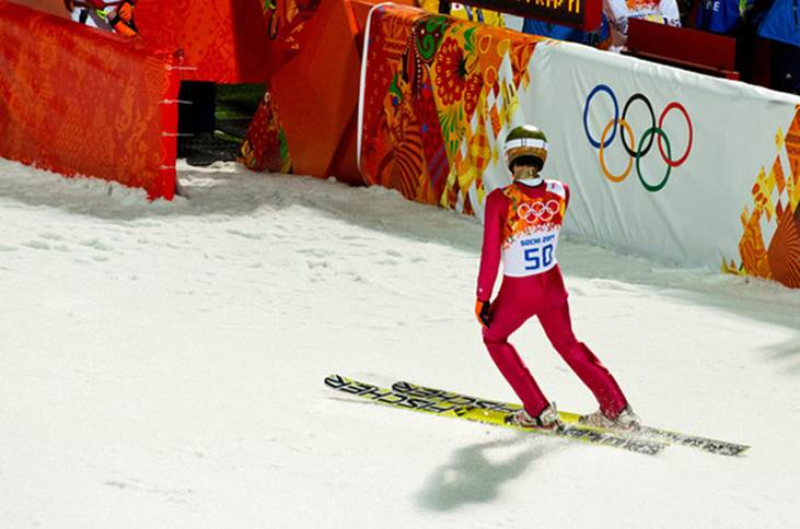 Kamil Stoch (POL) after jumping in the normal hill competition of ski jumping at the 2014 Winter Olympics